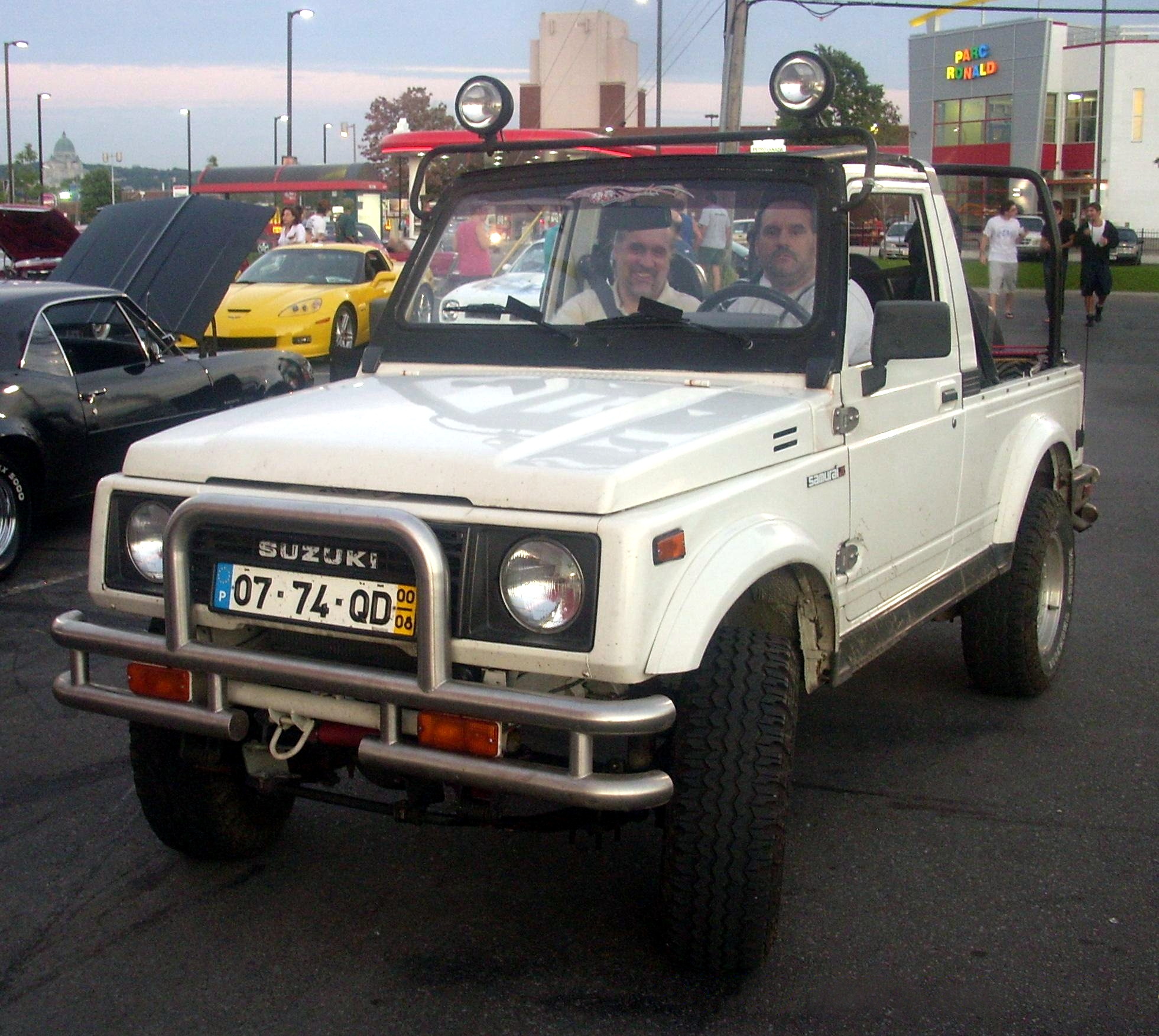 Suzuki Sierra SJ50 LWB photographed in Montreal, Quebec, Canada at Gibeau Orange Julep.